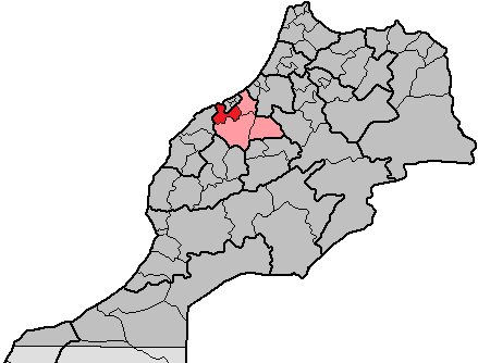 Location of the province Berrechid in the region Chaouia-Ouardigha, Morocco.